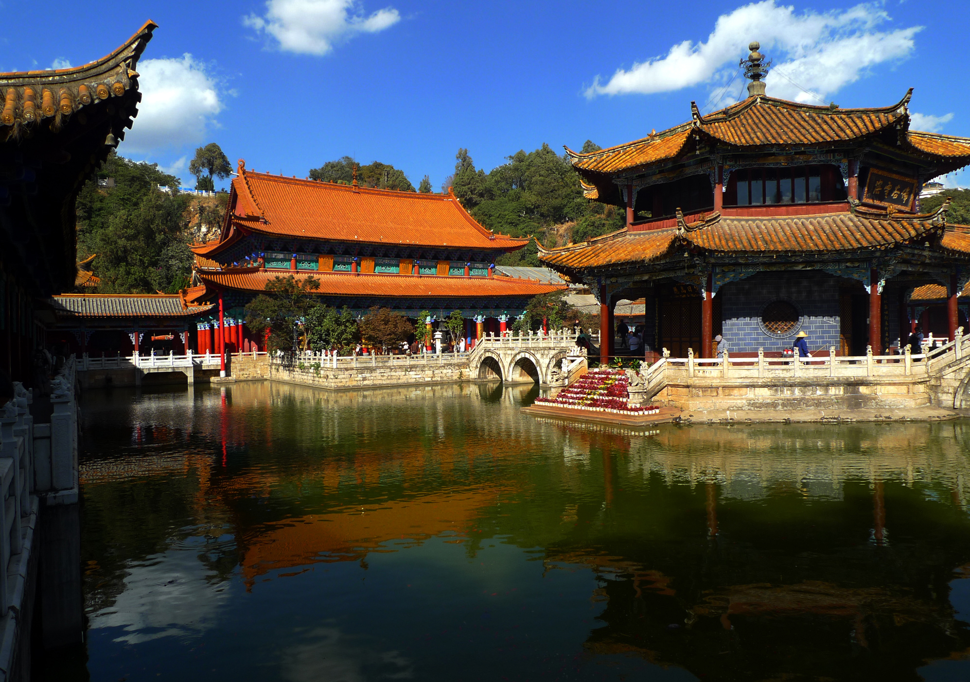 Kunming Yuan Tong Temple